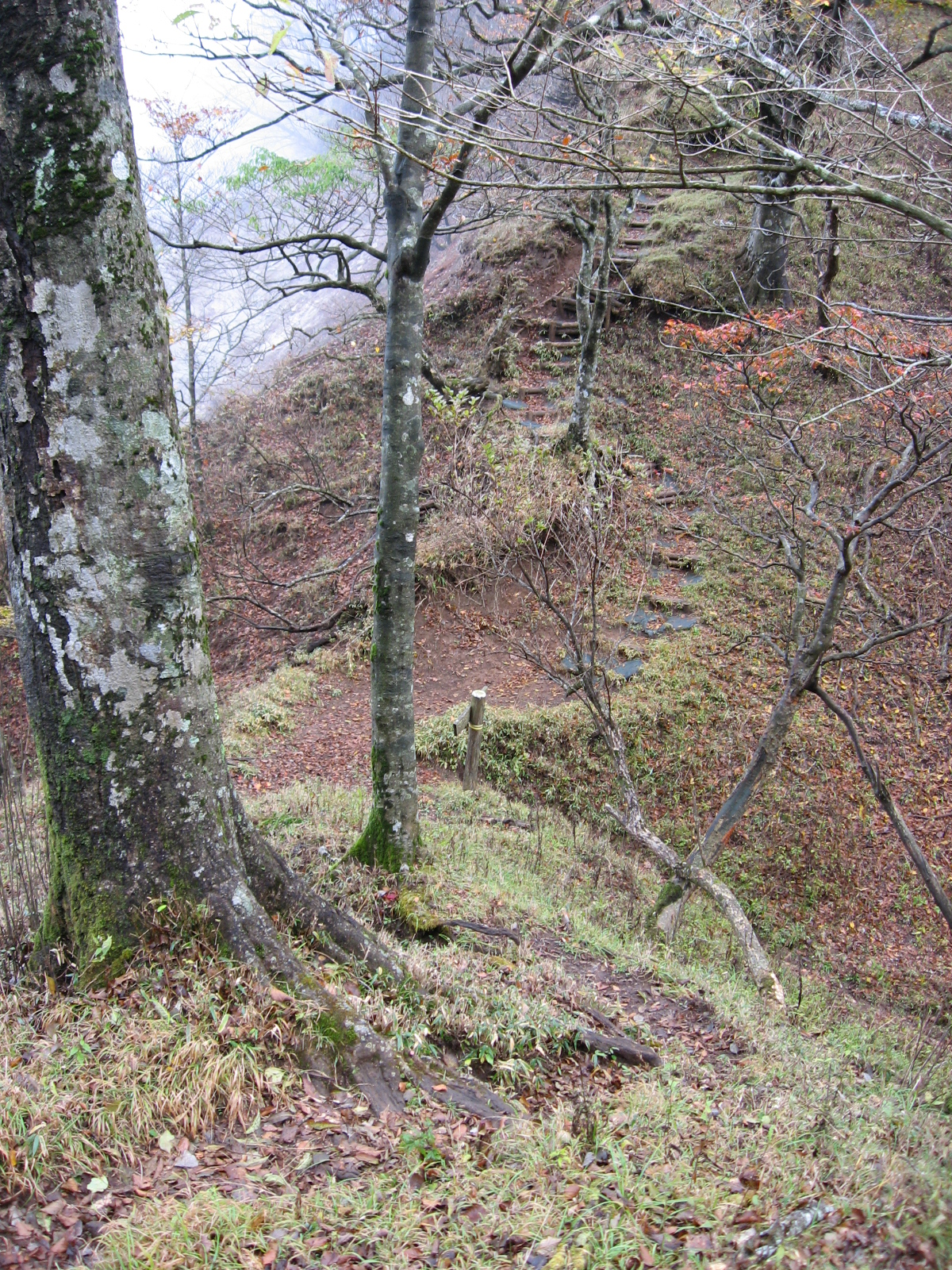 Kannogawa nokkoshi ("Kannogawa Pass") in the Tanzawa Mountains, Japan